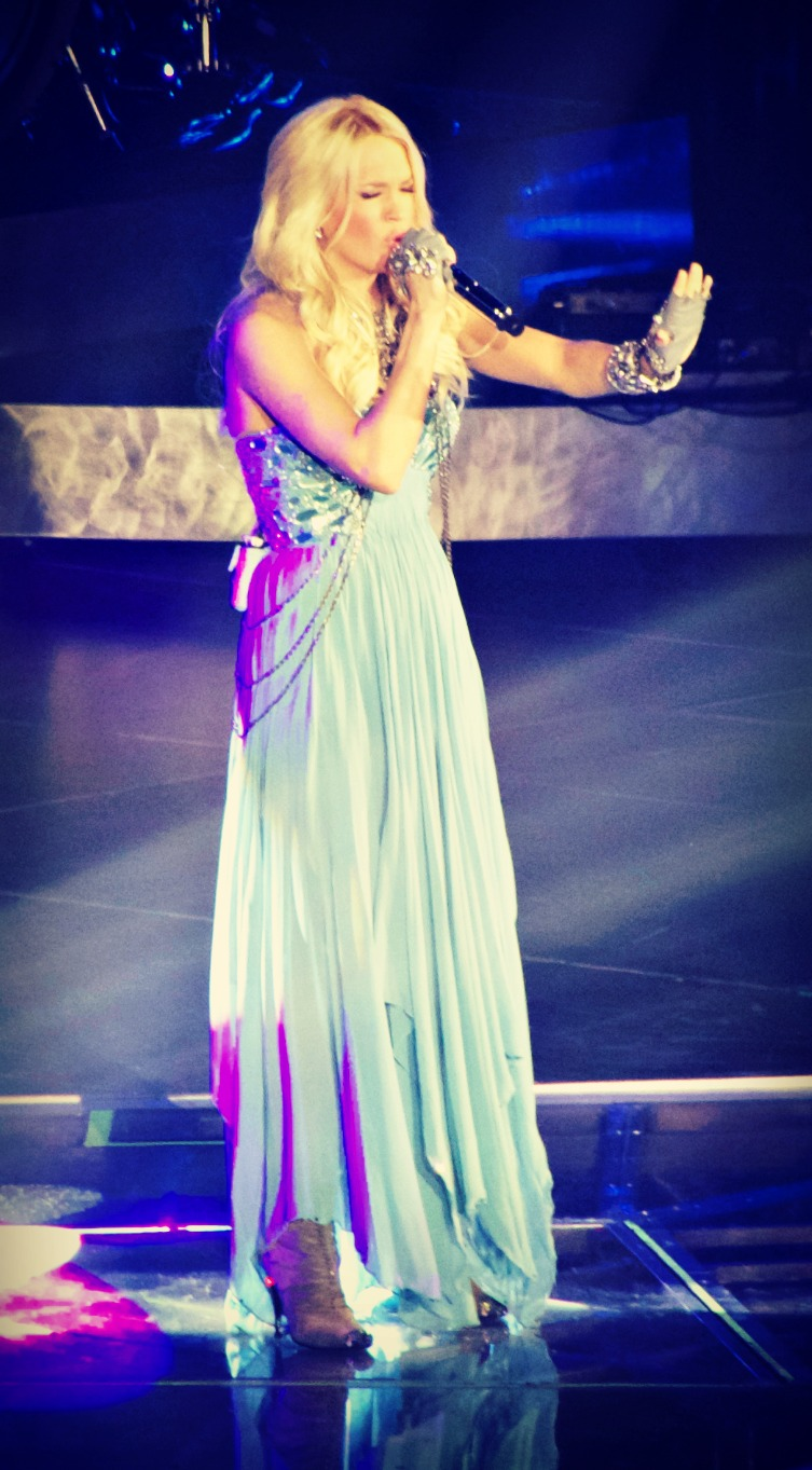 Message me to use photo thanks :)